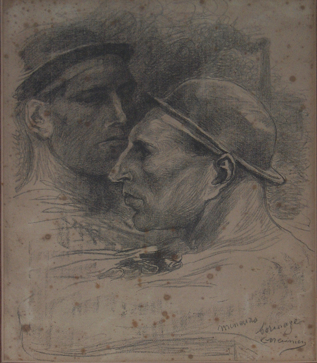 "Mineurs du Borinage", etching by Constantin Meunier (1831-1905); private collection